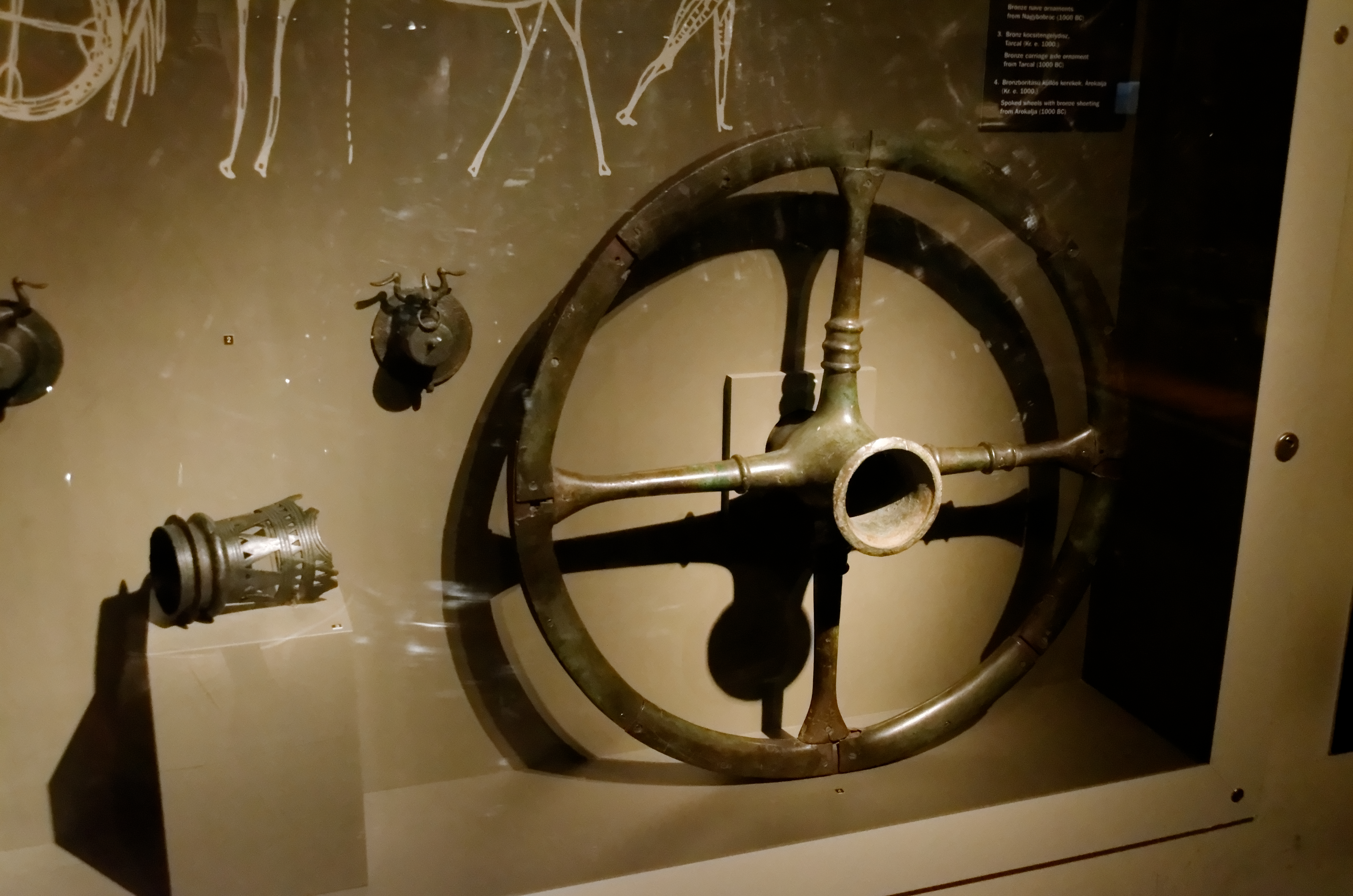 4) Spoked wheel with bronze sheeting from Árokalja. 1000 BC. 3) Bronze carriage axle ornament from Tarcal. 1000 BC. 2) Bronze nave ornaments from Nagybobróc. Displayed in the Hungarian National Museum, Budapest